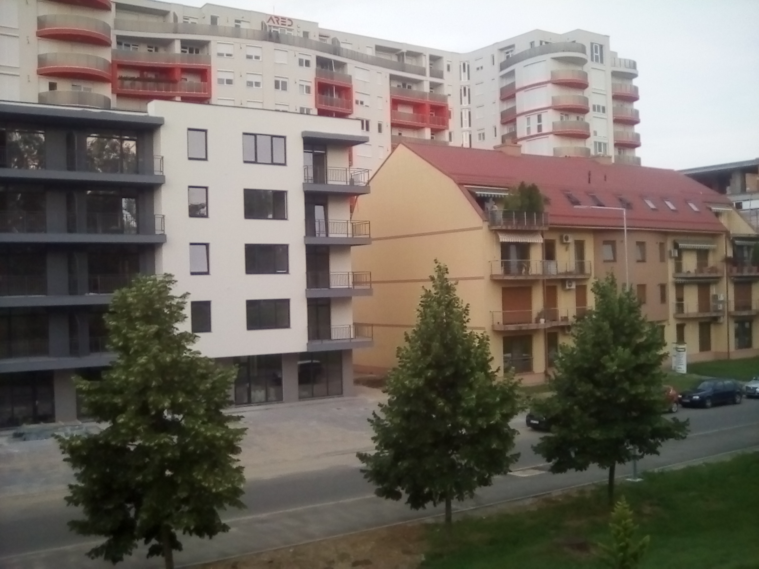 This is a picture of some new buildings(2018) in Macălaca neighborhood